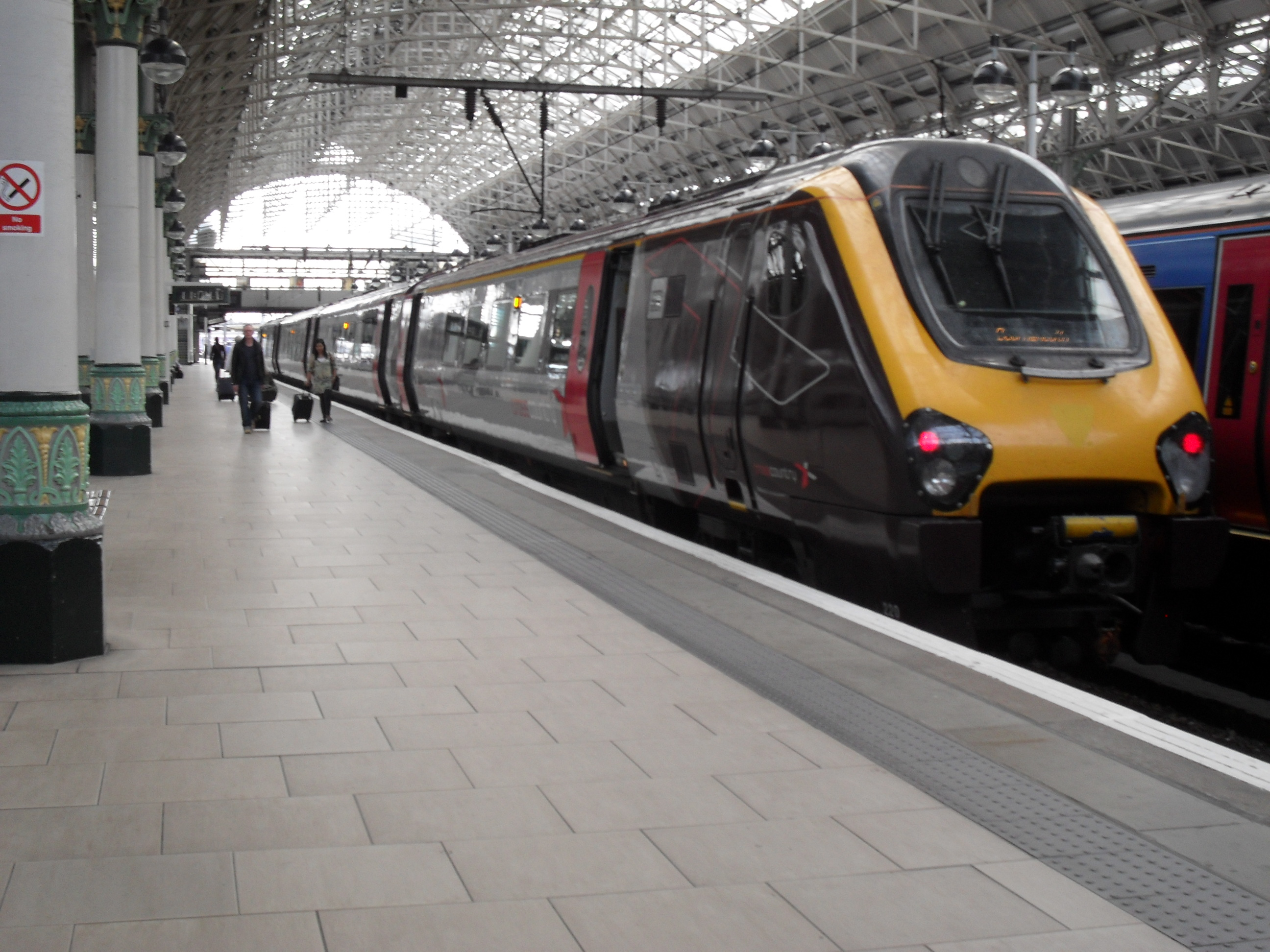 On 5 September 2010, a Class 220 Voyager train waits at Manchester Piccadilly ready to form a CrossCountry service to Bournemouth.